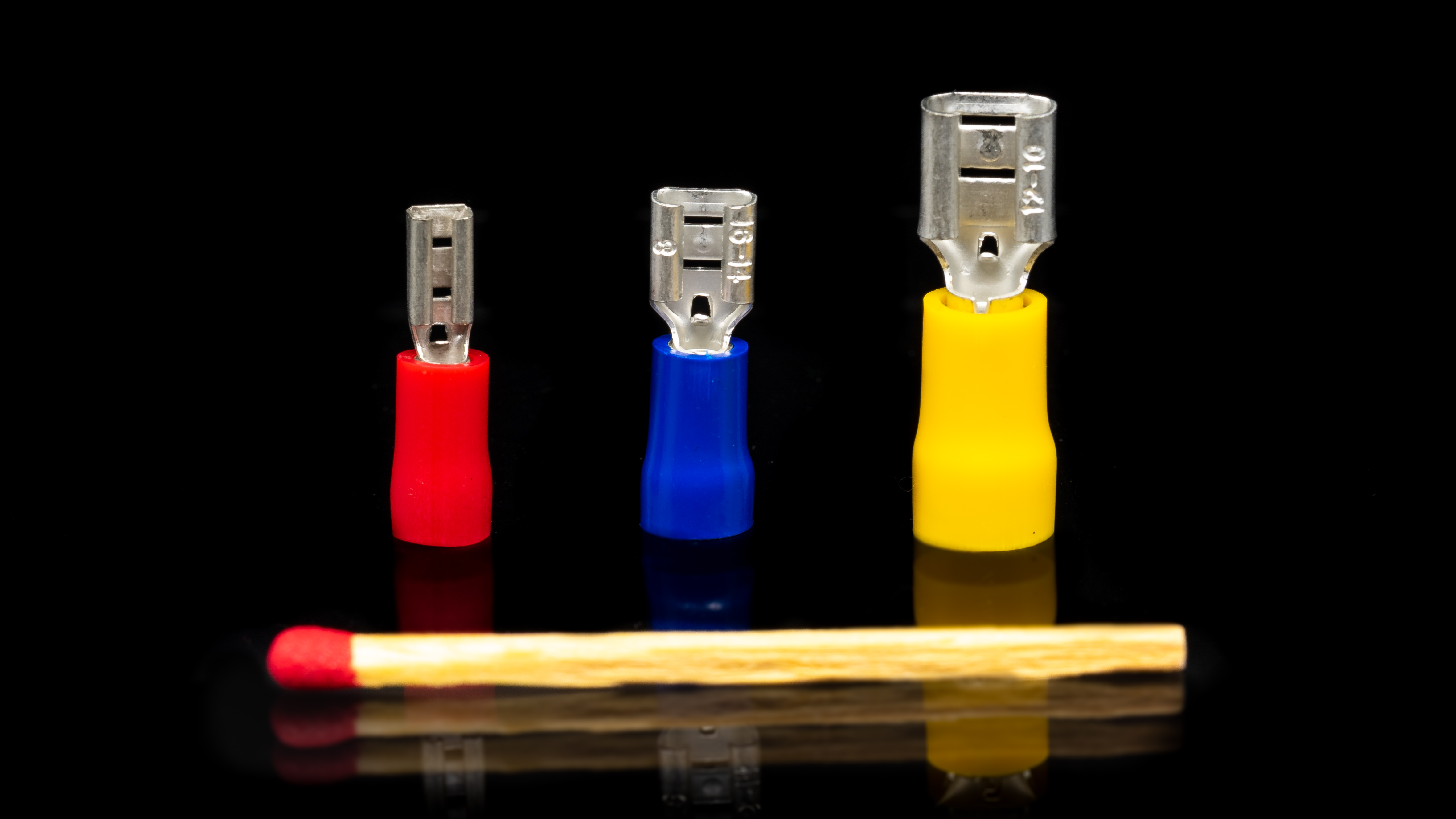 Faston style terminals, the female version, in three different sizes. The insulation has a special colour code which matches different wire size ranges.